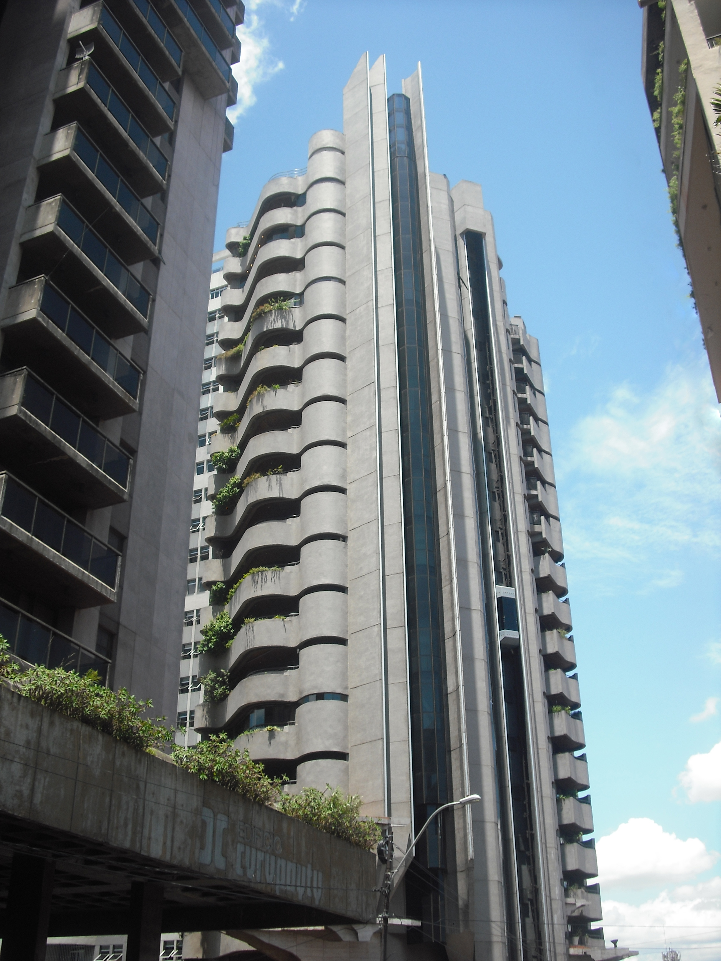 Photo of the Nautilus Tower